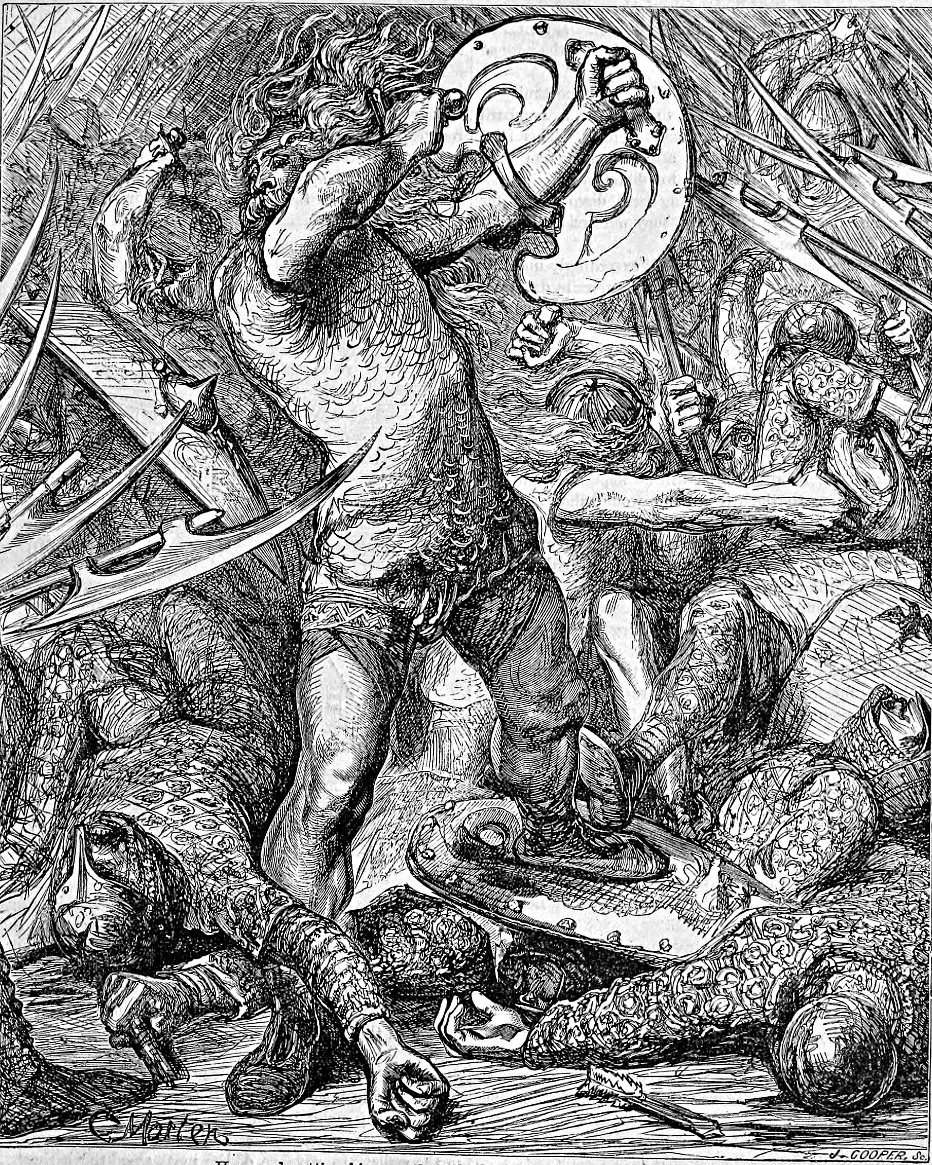 number = page #, image title = caption below image.